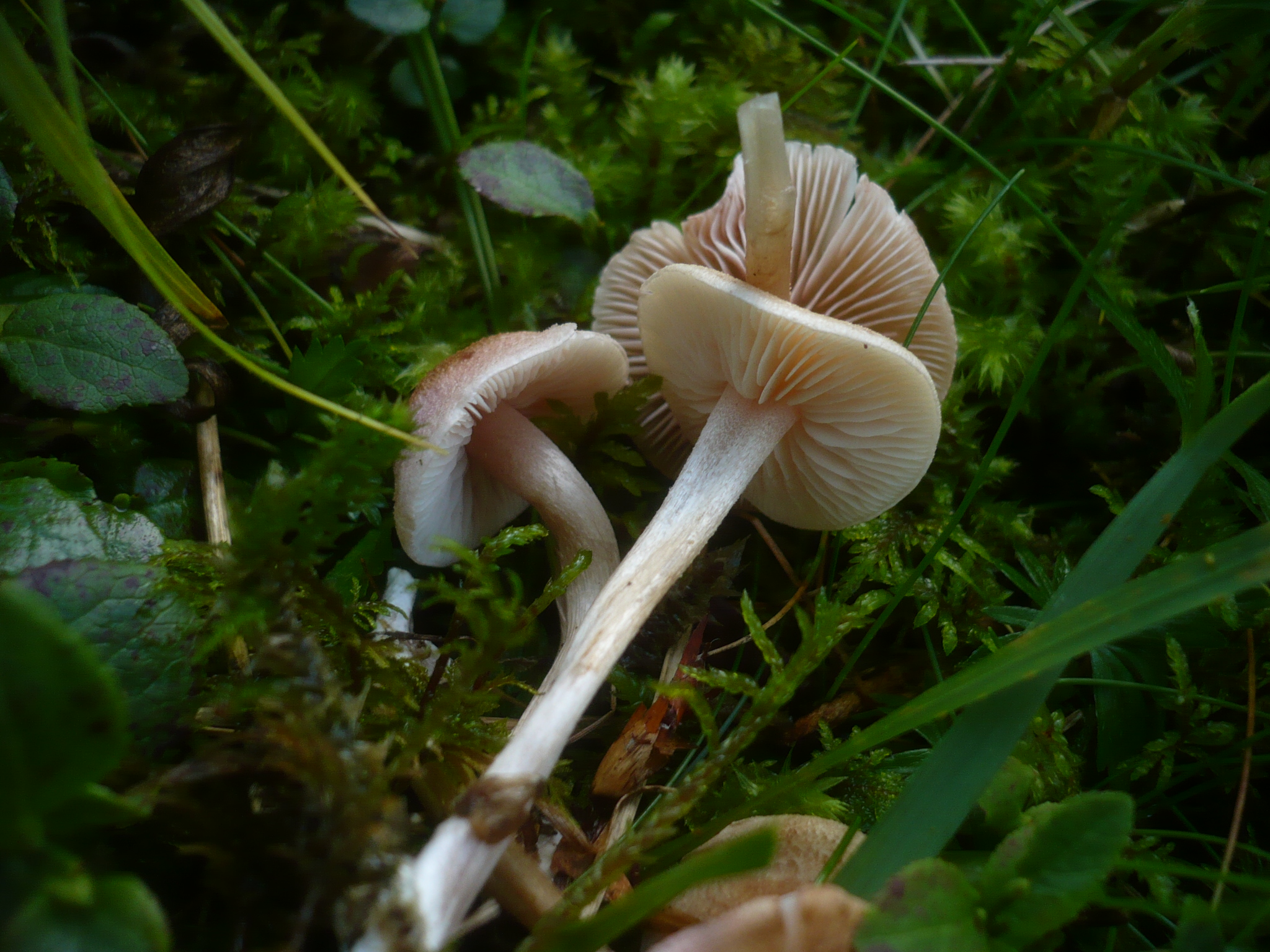 Entoloma queletii (Boudier) Noordeloos Image location: Kleewiese, Gasteil, Prigglitz, Bezirk Neunkirchen, Lower Austria, Austria also deposited in WU. Recognized by sight: pinkish tones in the cap are very diagnostic alongside with scales Used references Based on microscopic features For more information about this, see the observation page at Mushroom Observer.